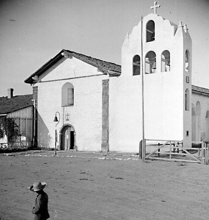 Mission Santa Ines circa 1900. Photograph by Keystone-Mast Company.